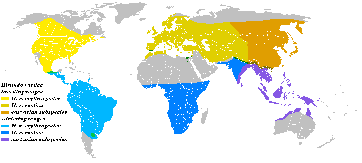 Hirundo rustica map. per subspecies Yellow/orange: breeding range Green: resident year-round Blue/violet: non-breeding range